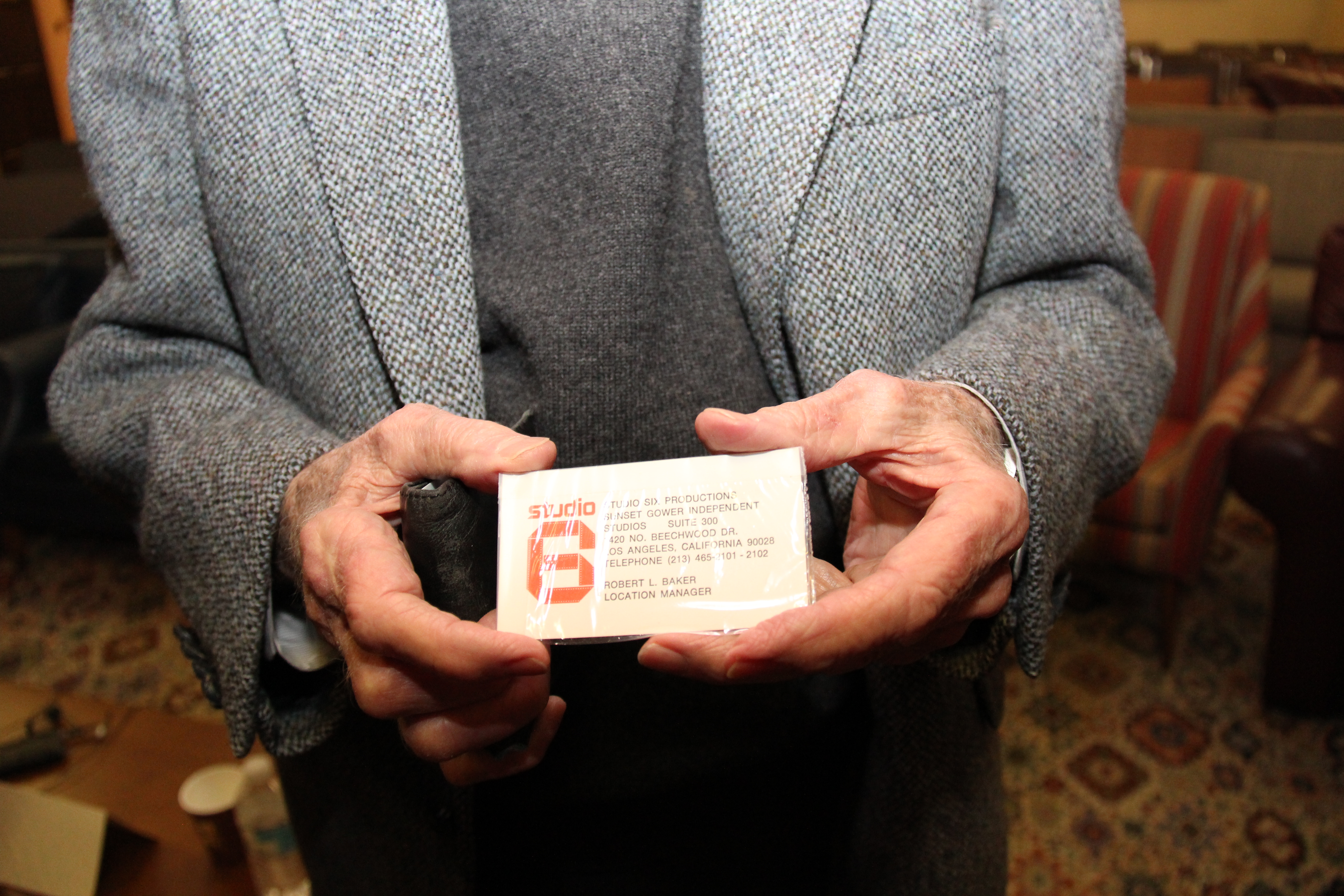 Robert Anders, one of the six escapees from the Iranian Hostage Crisis in 1979 displays his fake “Studio 6” business card. The CIA plan was that this make believe studio was going to make a movie called Argo.